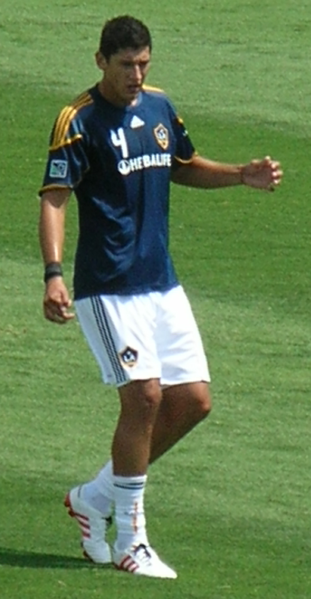 LA Galaxy defender Omar Gonzalez at an away game against the San Jose Earthquakes. The Earthquakes won 1-0.